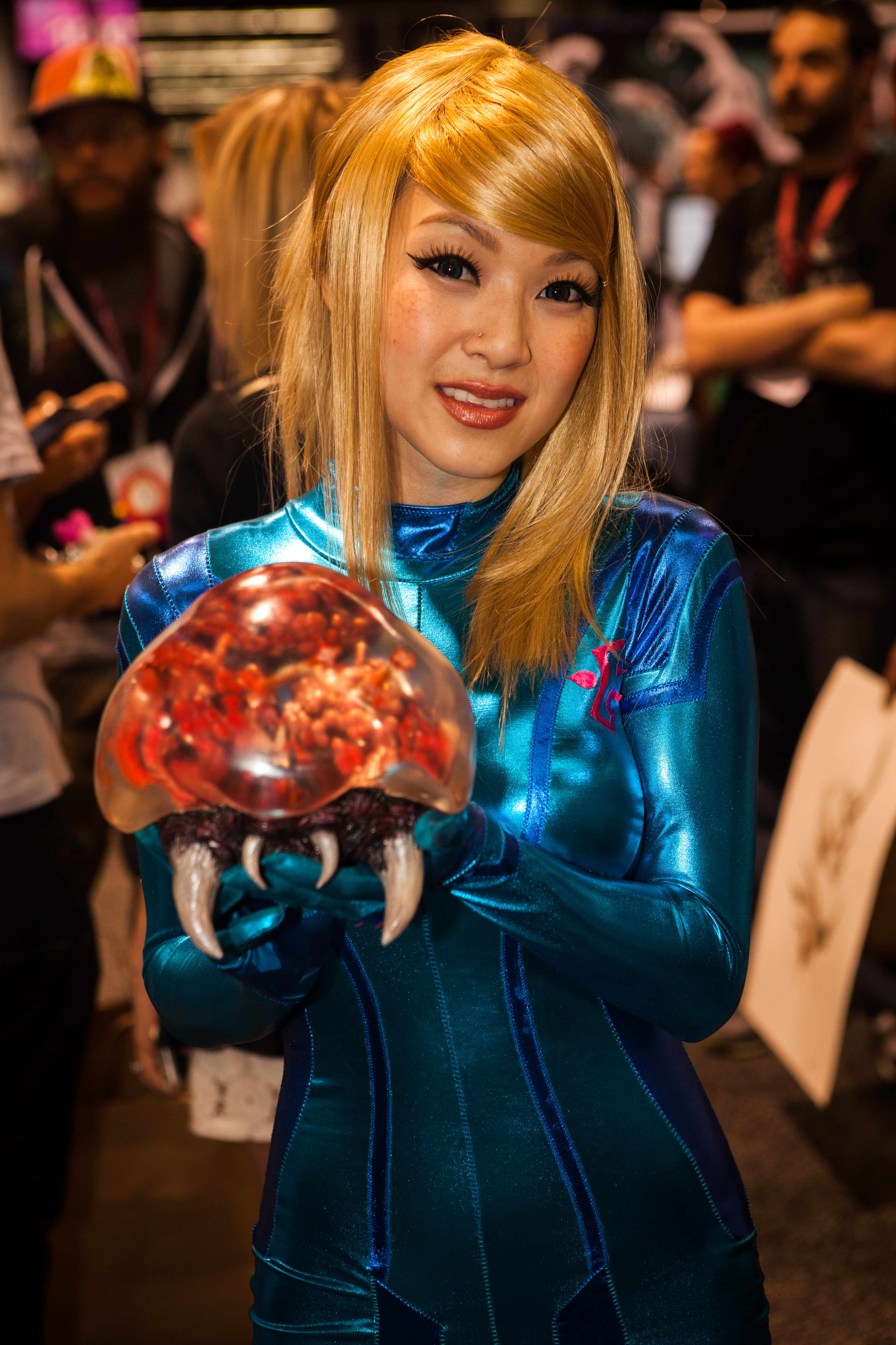 A cosplayer of Samus Aran from Metroid.